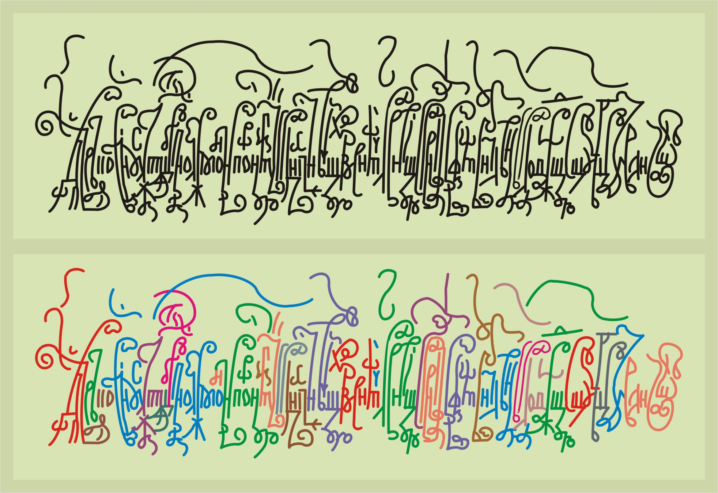 Russian Vyaz of Axion Estin